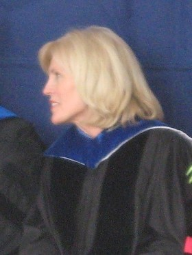 W. Rolfe Kerr (far left) at April 2008 BYU Commencement with Cecil O. Samuelson, David A. Bednar, and Elaine S. Dalton.